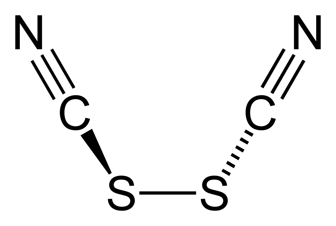 Structural formula of thiocyanogen